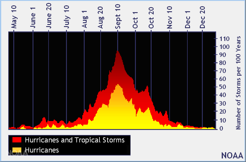 This graphic shows the temporal distribution of tropical cyclones in the North Atlantic bassin. The number of tropical storm and hurricane days this basin (the Atlantic Ocean, the Caribbean Sea, and the Gulf of Mexico) jumps markedly by mid-August.